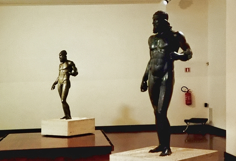 In the year 1972 two bronze statues from greece dating back to 460 until 430 b.c. were found on the bottom of the Ionic Sea near Riace Marina in Calabria in Italy. Since 1981 they are on view in the Museo Nazionale Di Reggio Calabria. The statues are put up on earthquake-proof platforms.